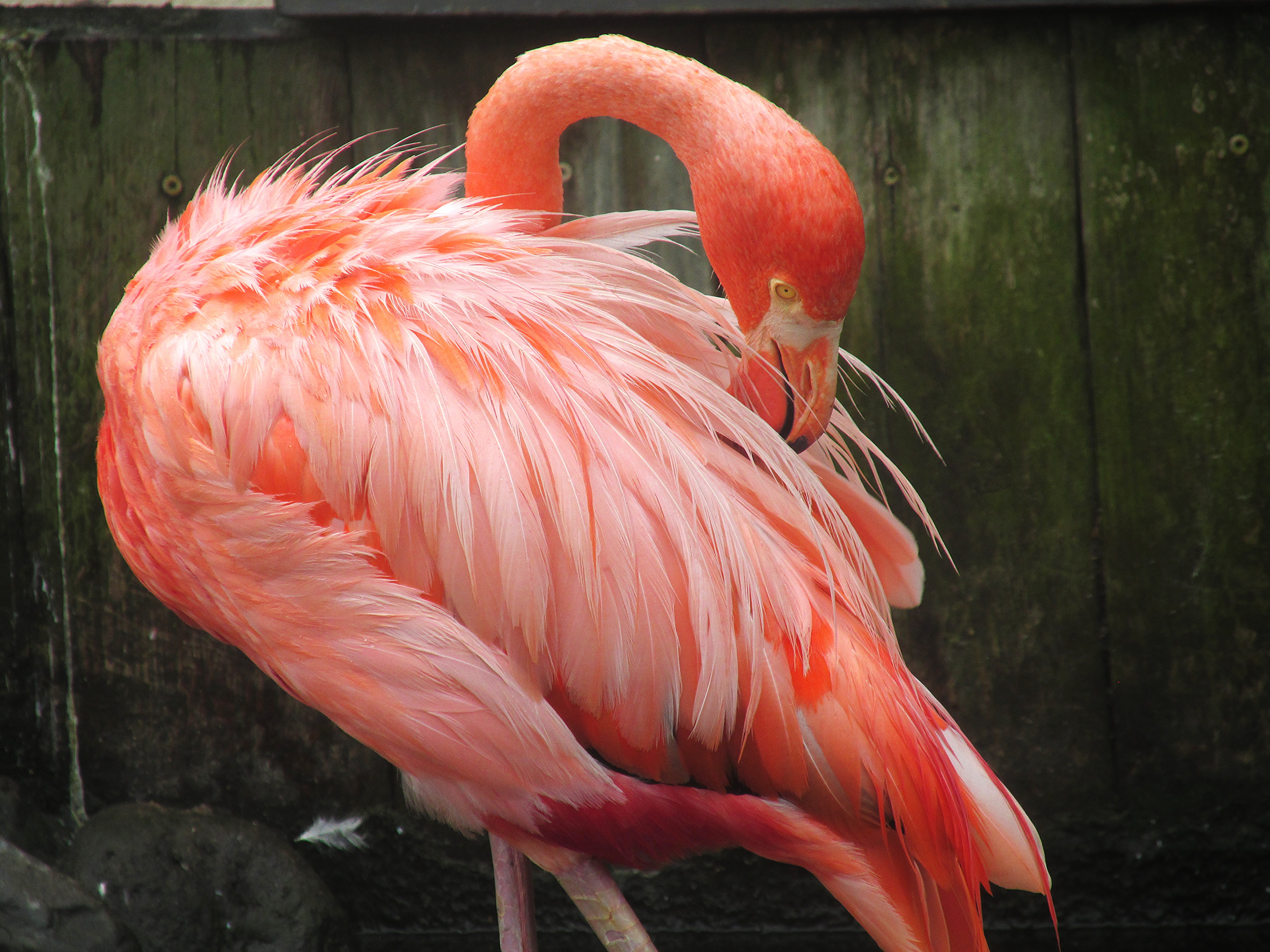 Just one of the many Flamingos that live among the gators at Gatorland Orlando Florida.